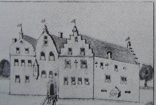 Drawing of the Onstaborg in Sauwerd with date unknown.